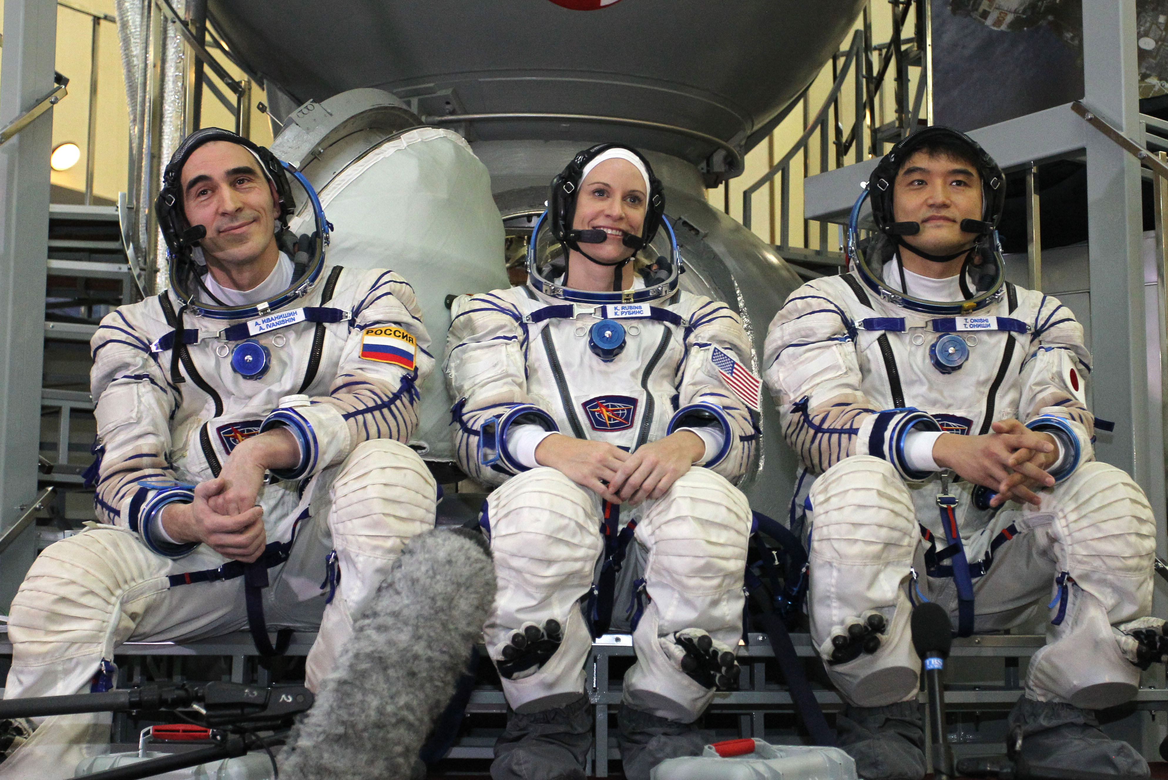 At the Gagarin Cosmonaut Training Center in Star City, Russia, Expedition 46-47 backup crew members Anatoly Ivanishin of the Russian Federal Space Agency (Roscosmos, left), Kate Rubins of NASA (center) and Takuya Onishi of the Japan Aerospace Exploration Agency (right) listen to reporters’ questions in front of a Soyuz simulator Nov. 19 at the start of qualification exams. They are the backups to the prime crewmembers, Yuri Malenchenko of Roscosmos, Tim Kopra of NASA and Tim Peake of the European Space Agency, who will launch Dec. 15 in the Soyuz TMA-19M spacecraft from the Baikonur Cosmodrome in Kazakhstan for a six-month mission on the International Space Station.